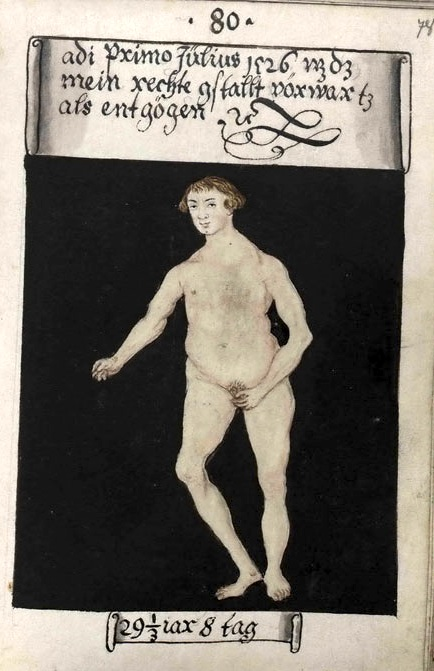 Matthäus Schwarz at the age of 29 (deciding to go on a diet)